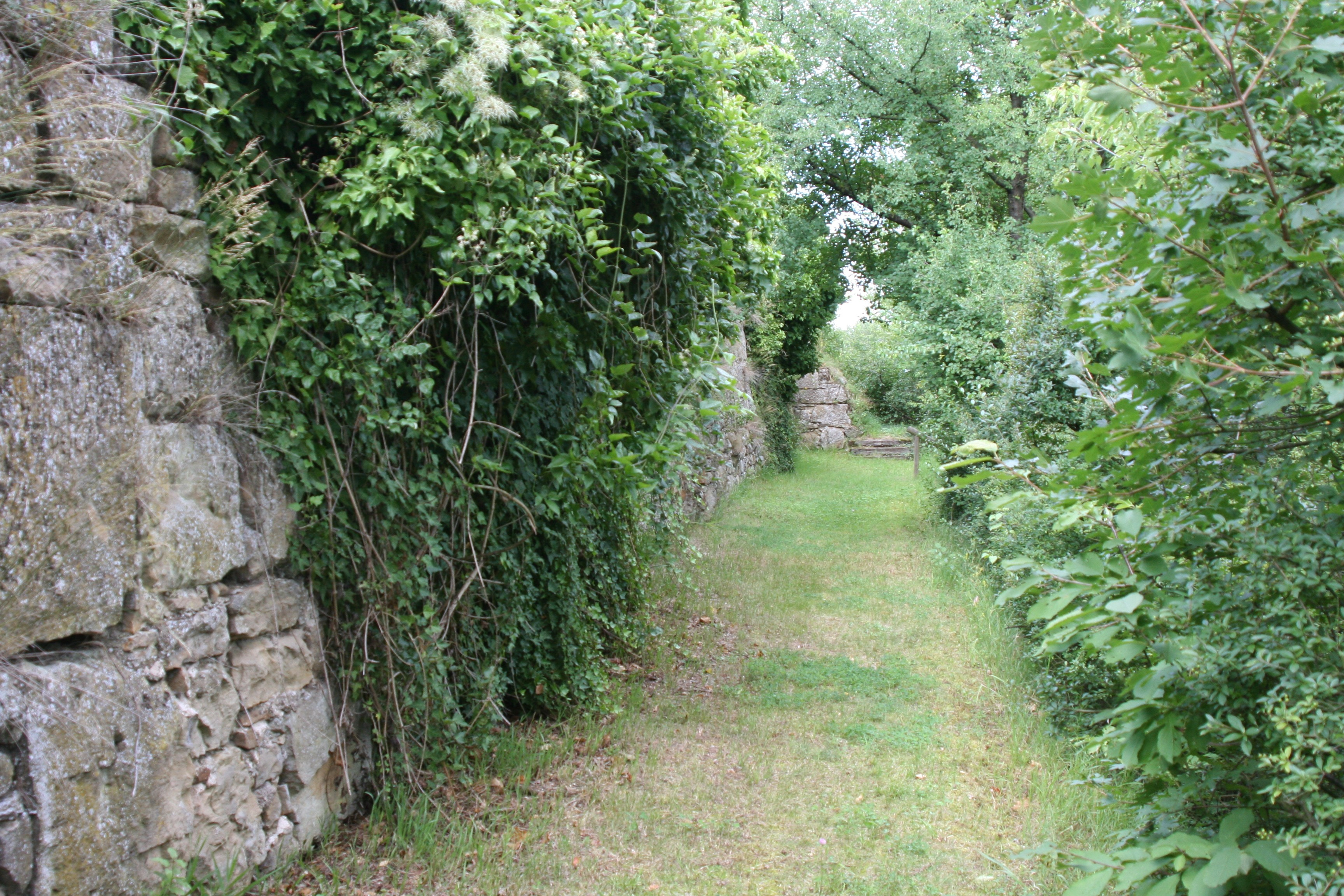 Remains of the walls of the medieval castle on the Scheuerberg hill in Neckarsulm